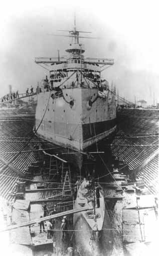 Imperial Russian battleship Retvizan during construction in the USA. In a foreground a Holland sumarine